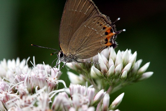 Satyrium mera (JANSON, 1873) Many thanks to Kazuhide Yoshida from for determination!